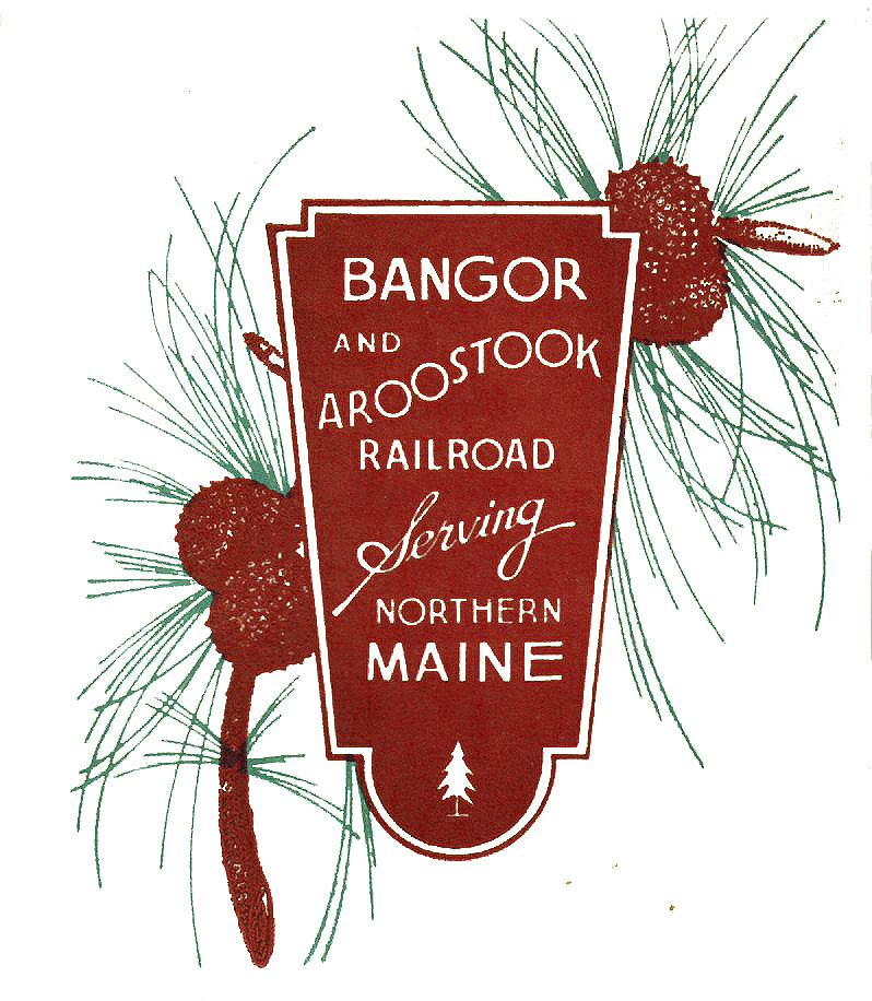 Logo of the Bangor & Aroostook Railroad (From 1918 timetable) "The Cooper Collection of American Railroadiana" (uploader's private collection)